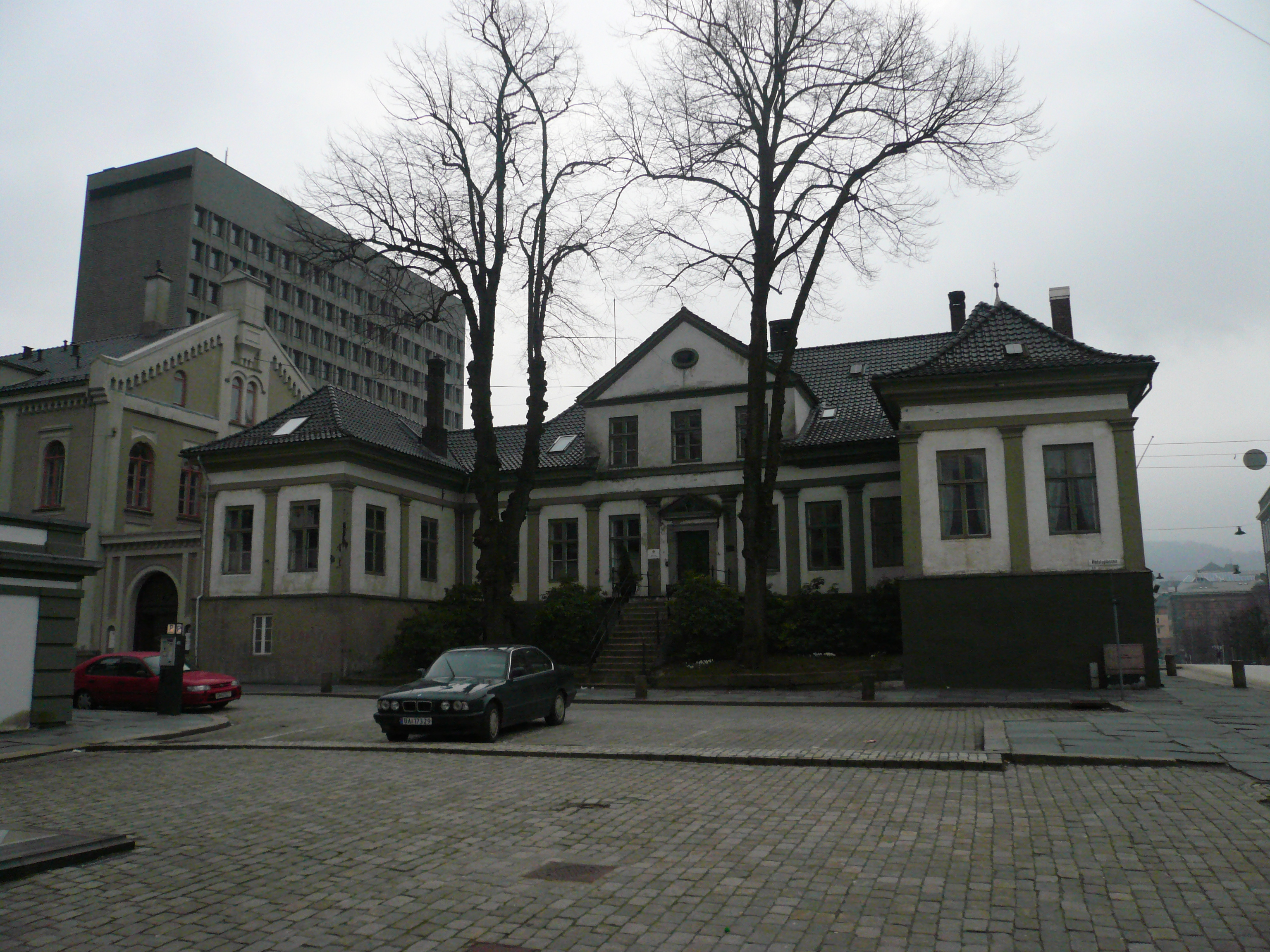 Hagerupsgården (1704), Bergen, Norway.